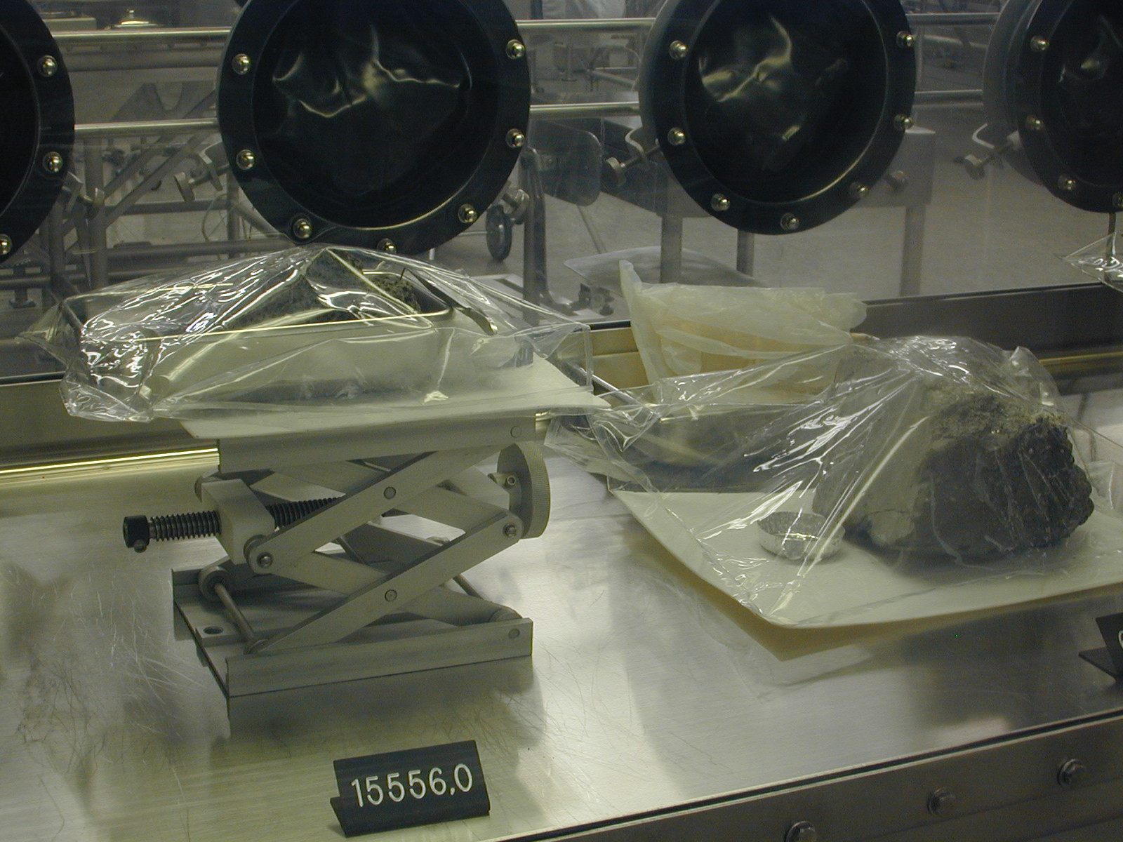 Part of the cleanroom lunar sample processing arrangements, showing closeups of samples, at the Lunar Sample Building, Johnson Space Center, Houston, Texas. These samples are considered "returned" as there have been slices taken from them